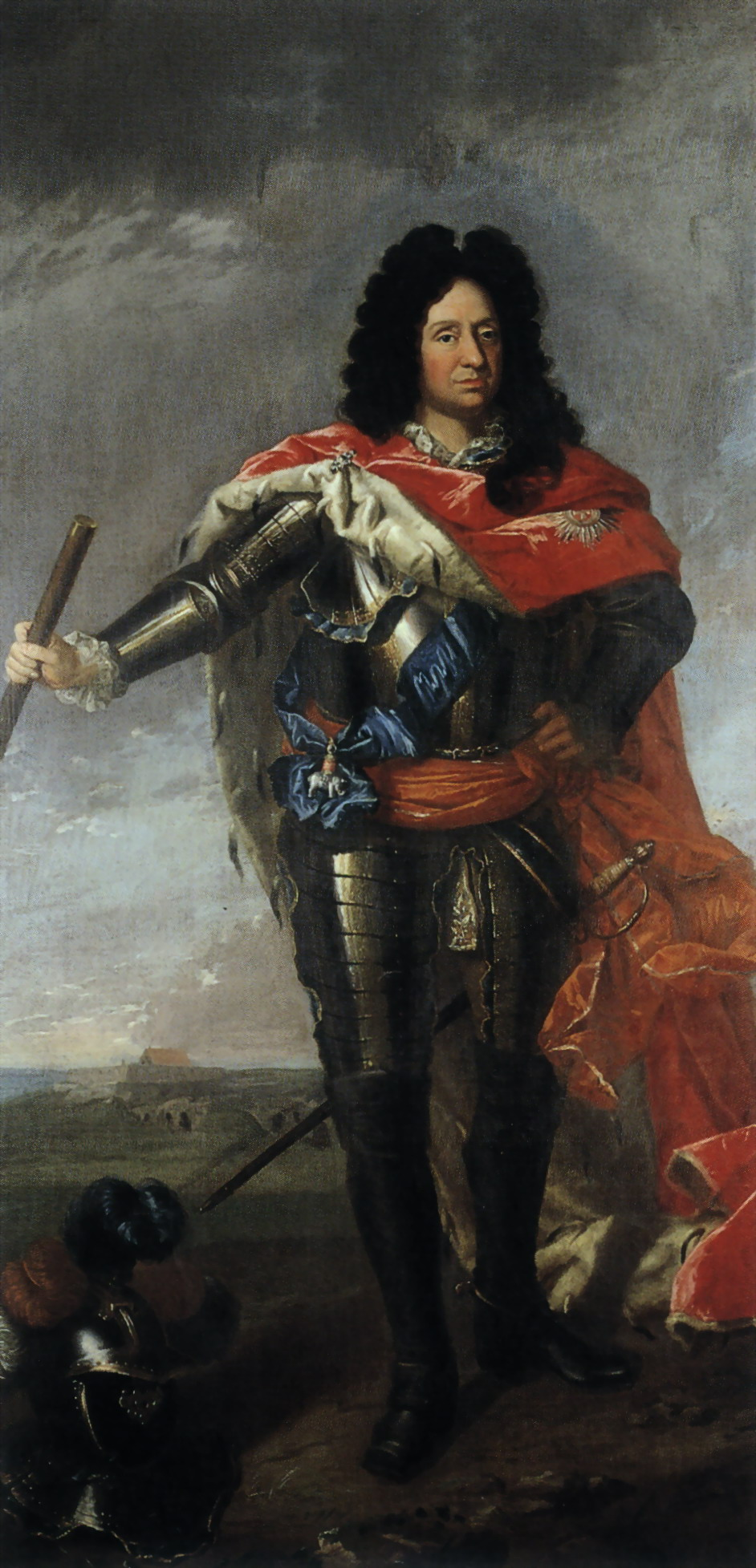 Johann Adolf, duke of Holstein-Plön (1634-1704), painted for the Gouvernors Palace in Maastricht by Johann Valentin Tischbein (after contemporary portraits?), ca 1750. Museum collection of Schloss Fasanerie, Fulda, Germany.